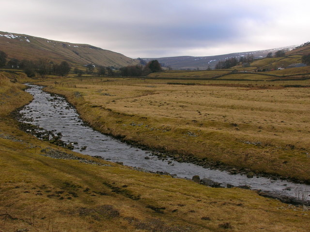 River Eden south of Thrang Bridge, Mallerstang